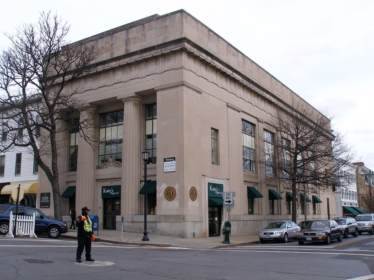 old Putnam Trust Co. Bldg. (Greenwich)